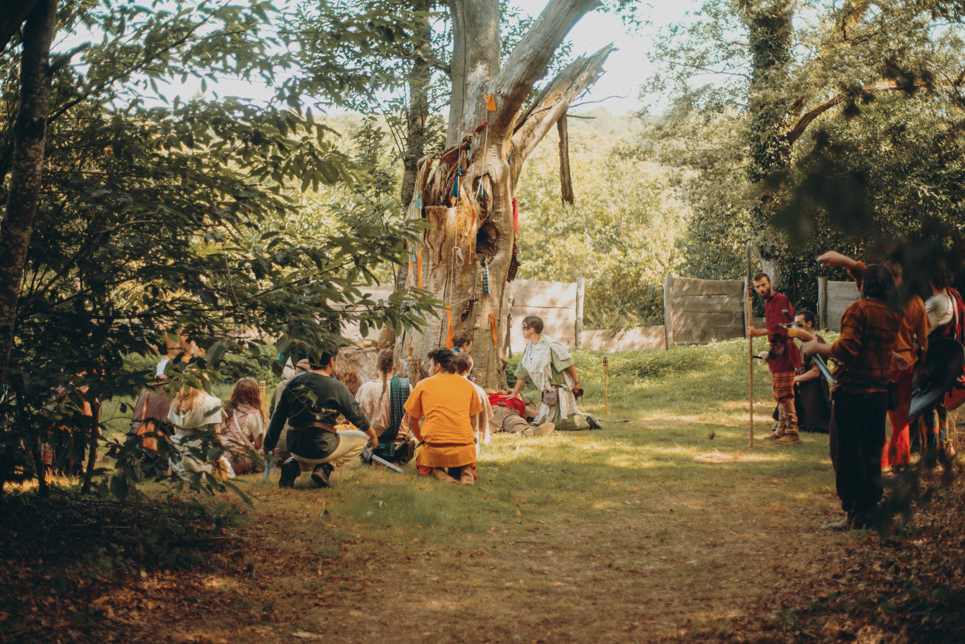 80 Roleplayers in a live action roleplay Gallic adventure in a recreated period village in Esse, France.